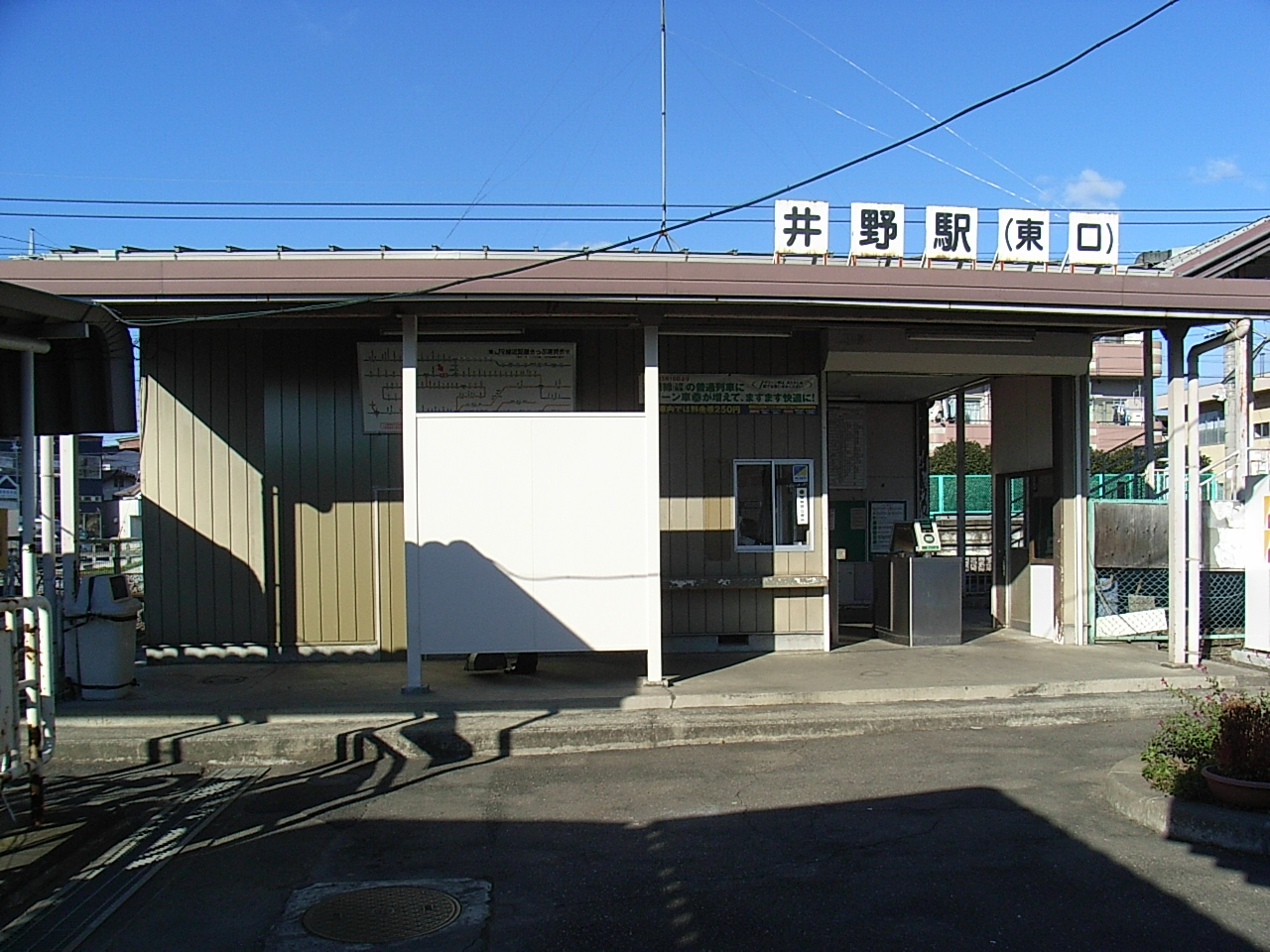 Ino Station (East Entrance)